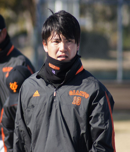 Toshiya Sugiuchi, pitcher of the Yomiuri Giants.